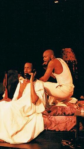 Charles Reese (James Baldwin) and Forrest McClendon(Ethereal) in the original Off-Broadway production of James Baldwin: A Soul On Fire. New Federal Theatre, New York circa 2000.